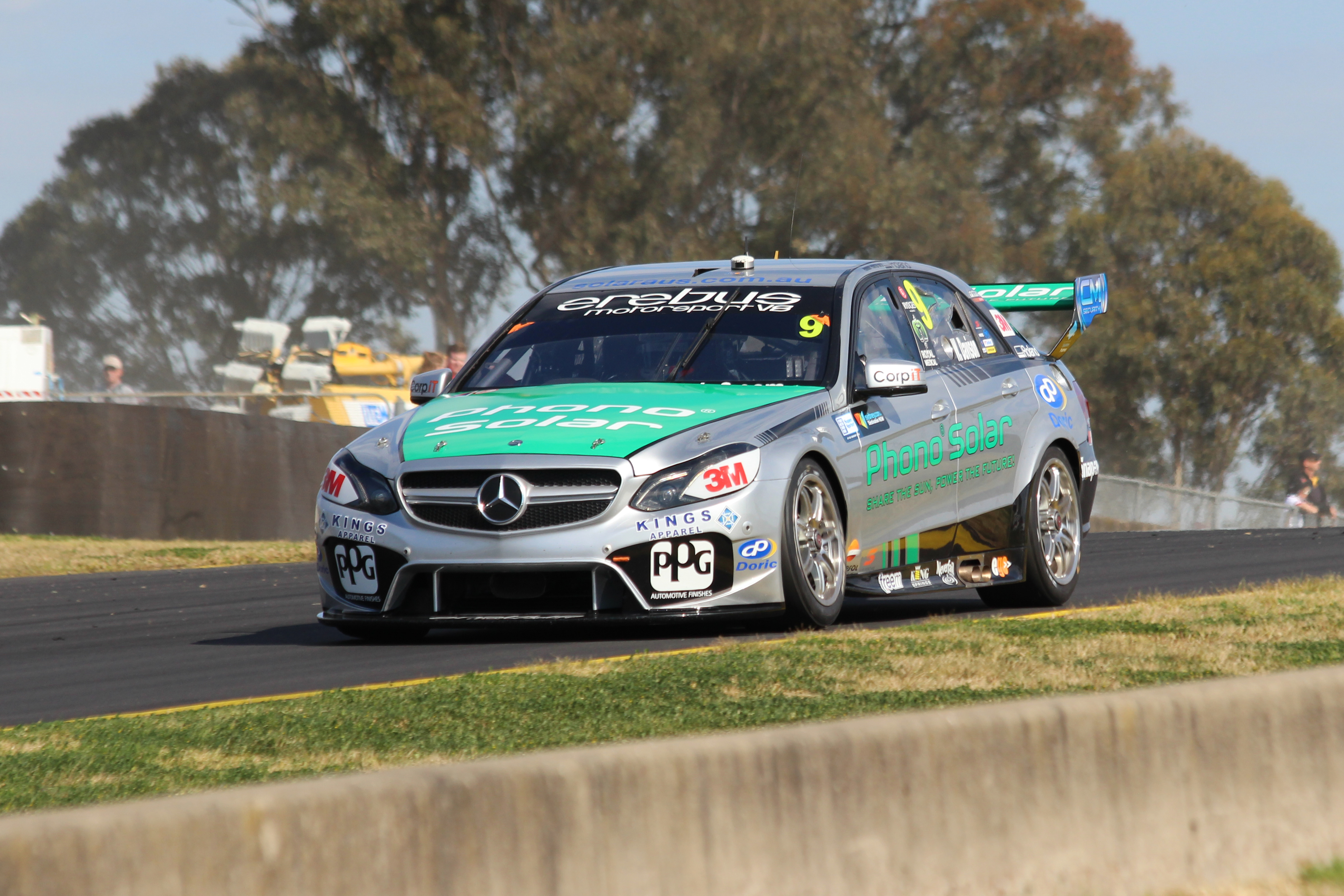 Will Davison during a practice session at the 2015 Sydney Motorsport Park Super Sprint.